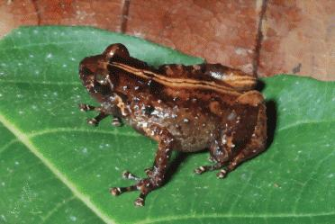 ZooKeys - Oreophryne cameroni Cut-out from original (Three-new-species-of-Oreophryne-(Anura-Microhylidae)-from-Papua-New-Guinea-ZooKeys-333-093-g002.jpg) shown below